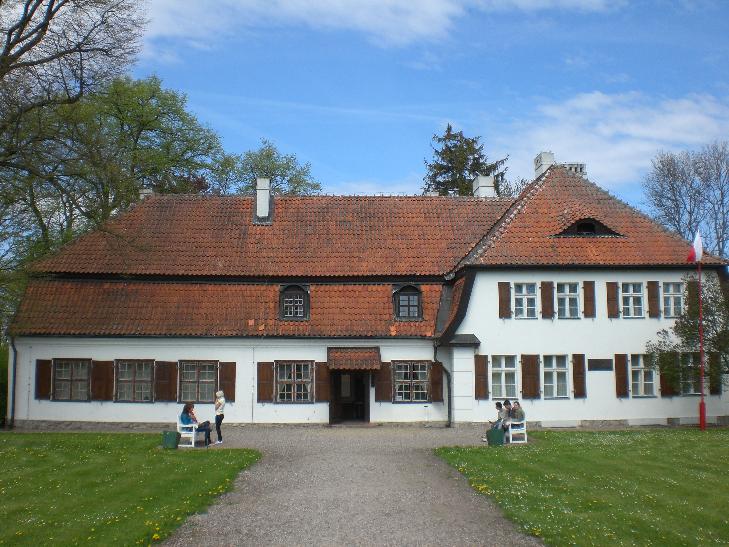 Będomin - "Museum of Polish National Anthem"